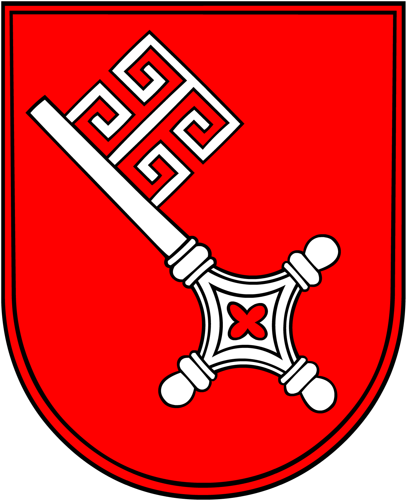 heraldic shield of the coat of arms of Bremen